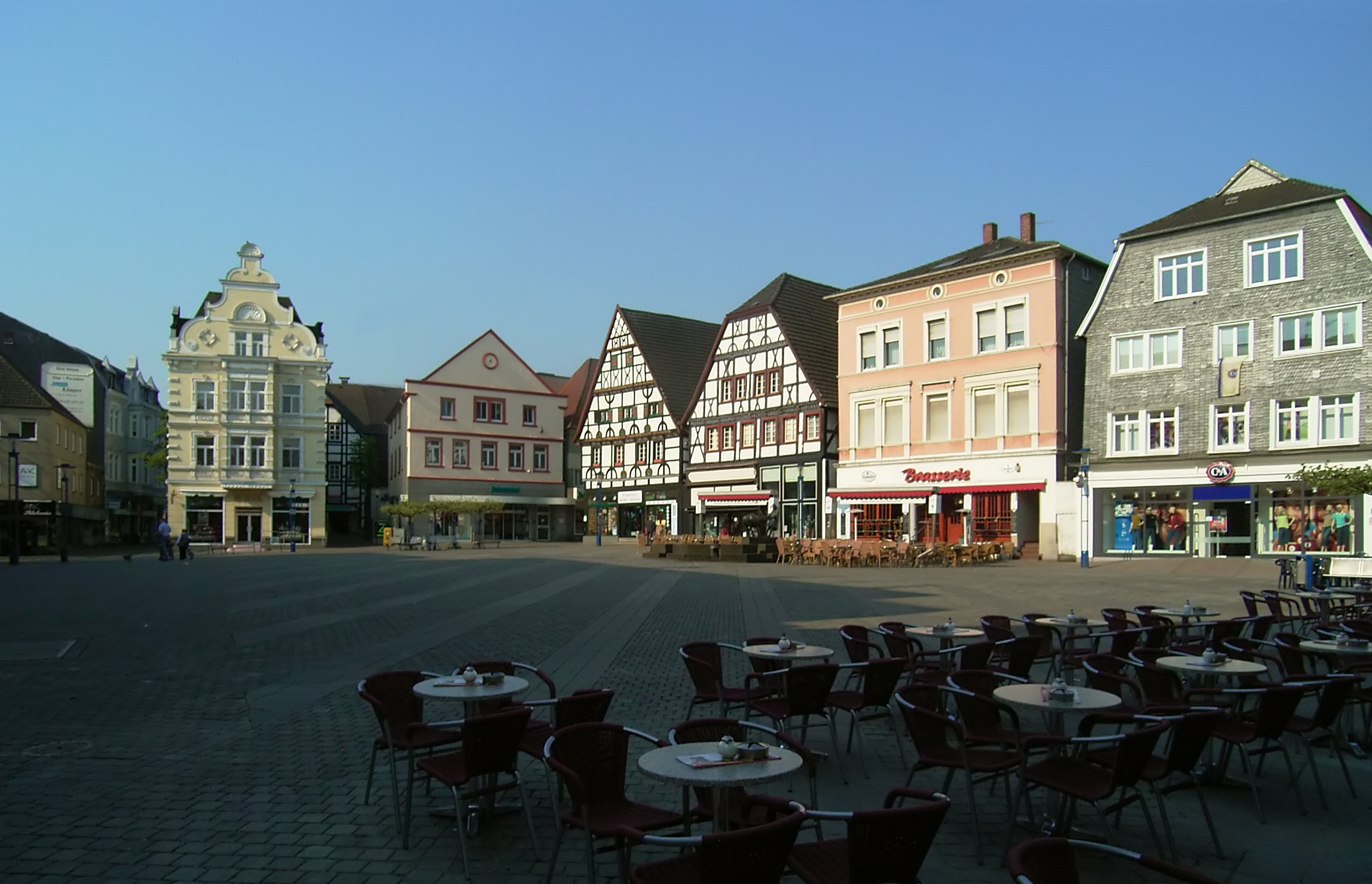 The old market square of Unna (image slightly edited)